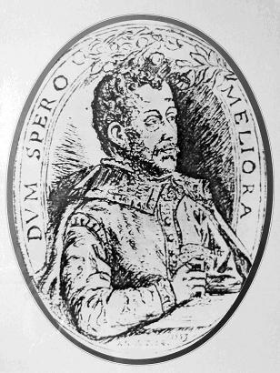 Guillaume des Autels, poet associated with La Pleiade